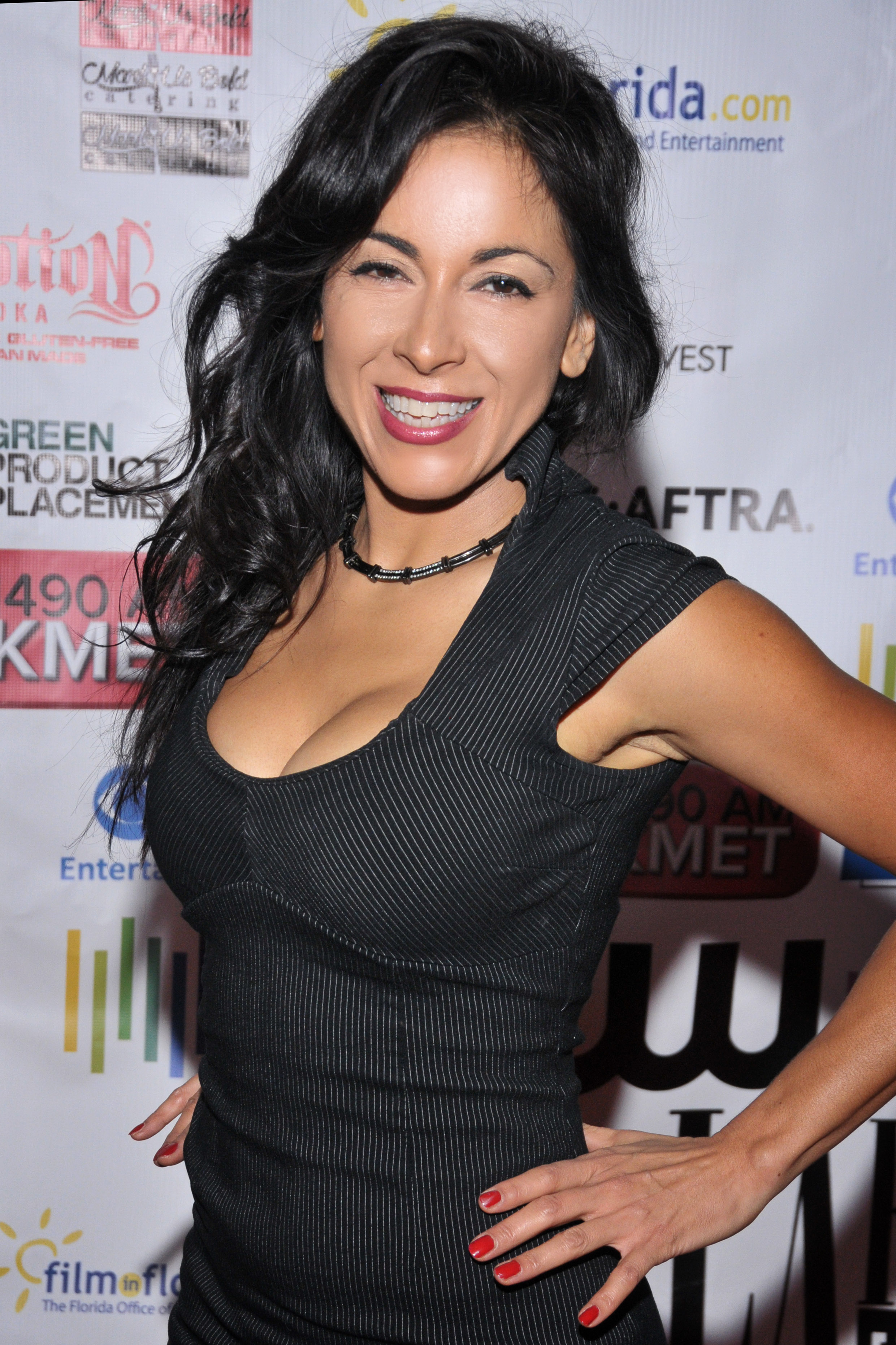 Delilah Cotto at the LA Femme Film Festival in Los Angeles California on October 18, 2015 - Photo by Glenn Francis of